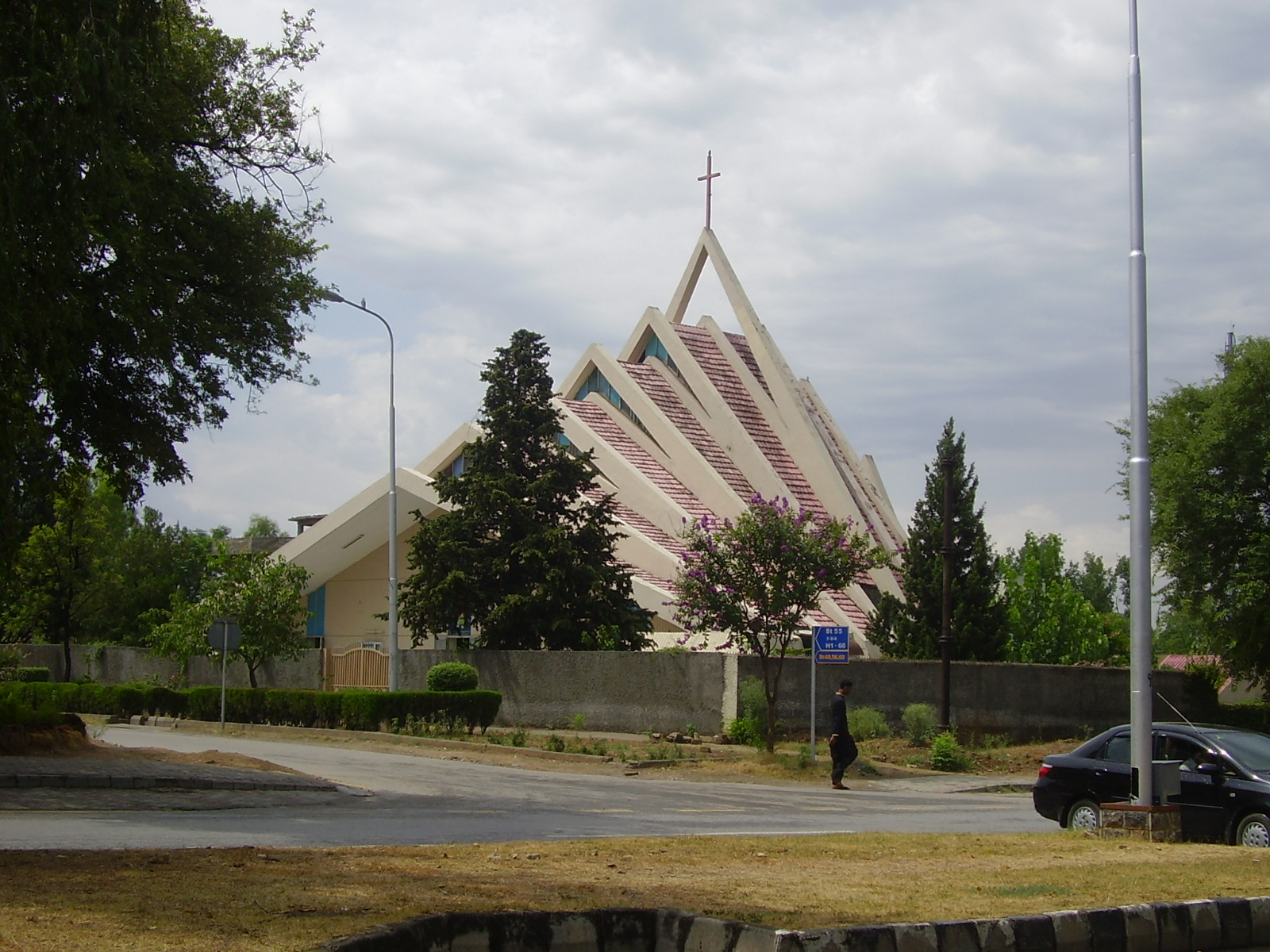 Church in F-8 Islamabad, Pakistan. Modern movement architecture in Pakistan.